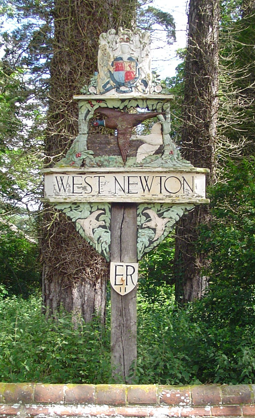 Signpost in West Newton